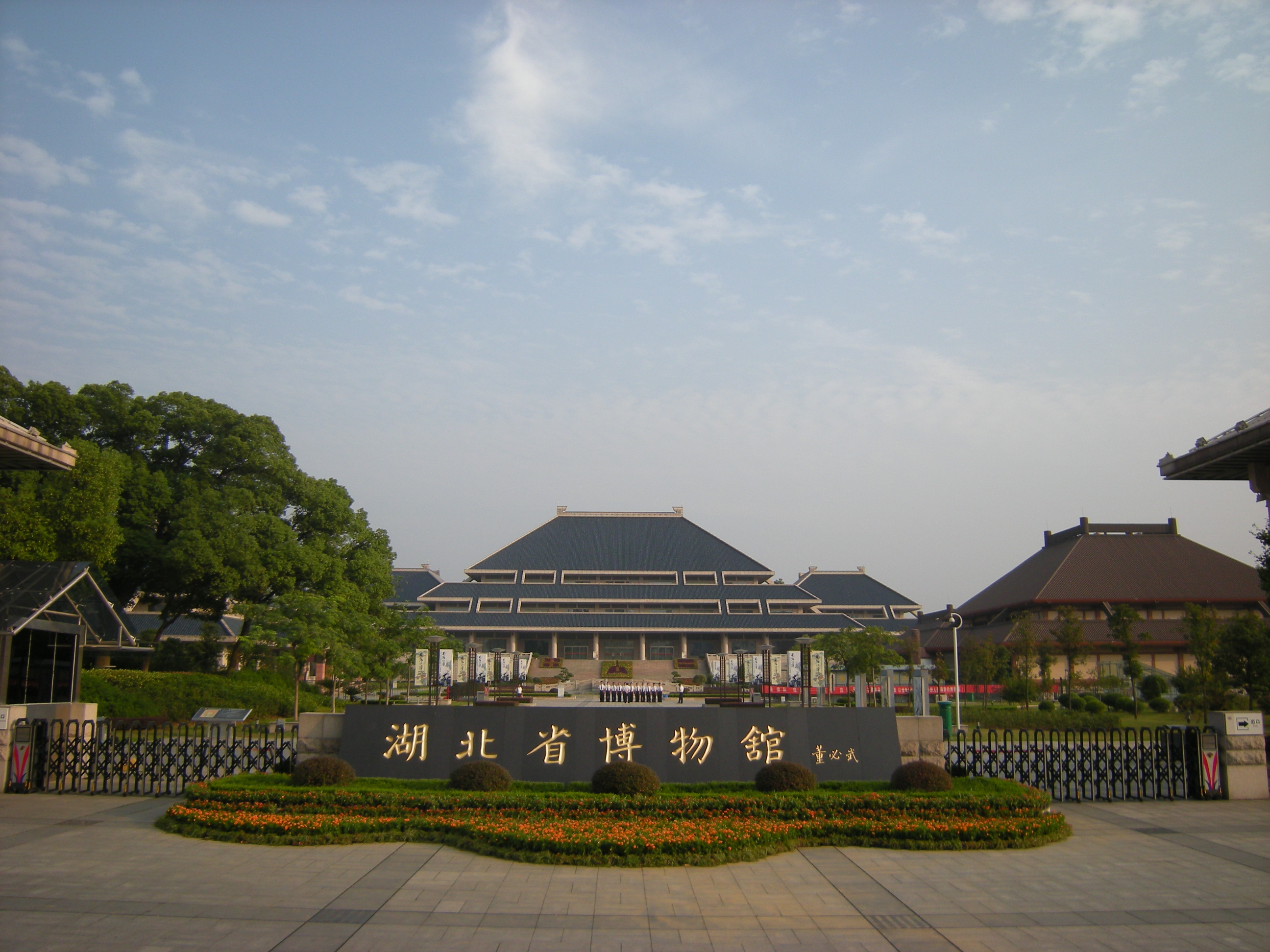 Hubei Provincial Museum,which is located in Wuhan City, Hubei Province 坐落于湖北省武汉市的湖北省博物馆,馆名由郭沫若题写. 坐落于湖北省武漢市的湖北省博物館,館名由郭沫若題寫.